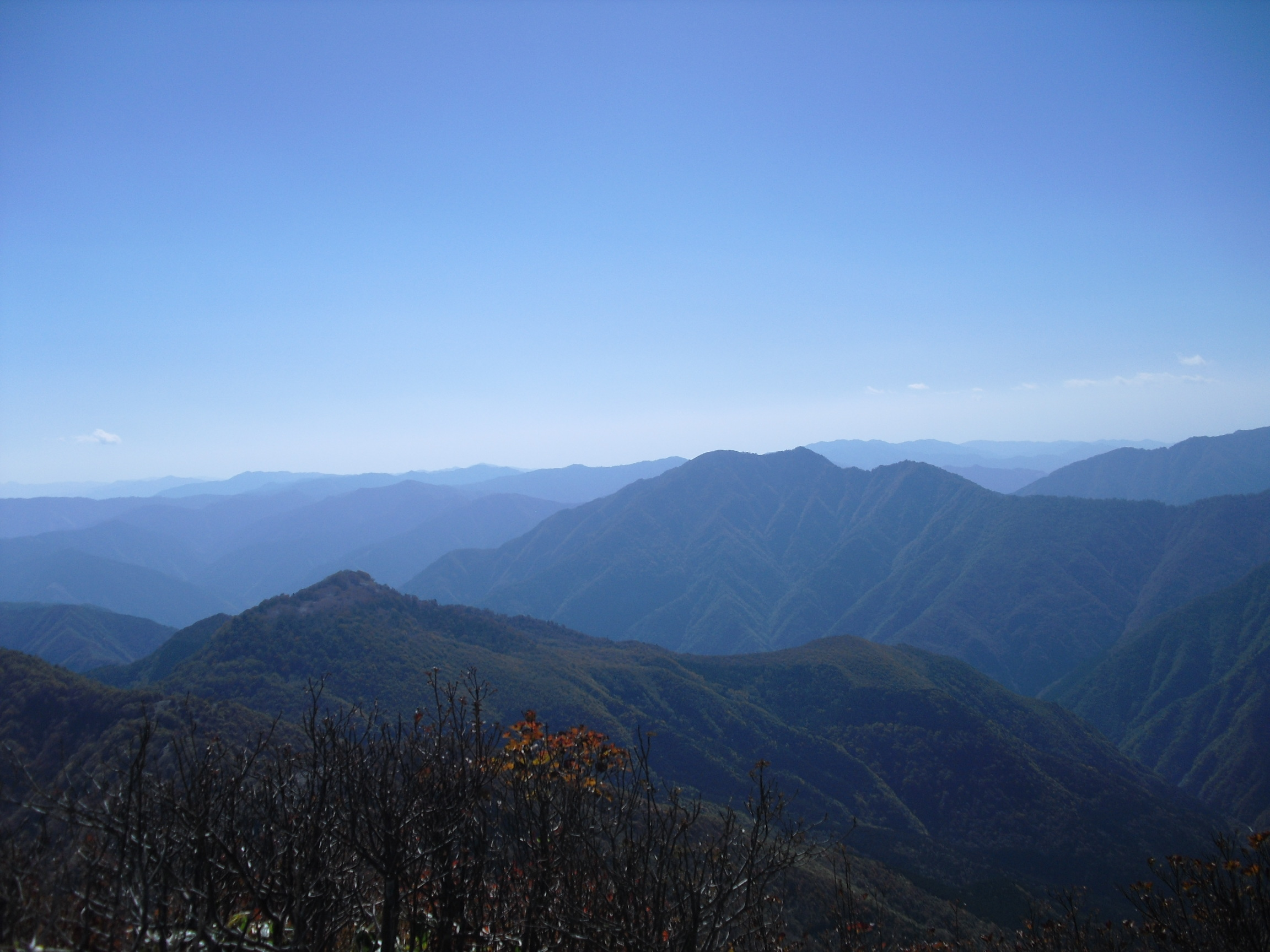 Ishidateyama (Mount Ishidate) as seen from the NNE. Taken from Jirogyu.